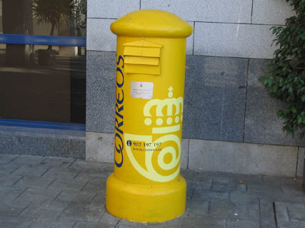 Buzón de Correos en Andorra la Vella (Andorra).